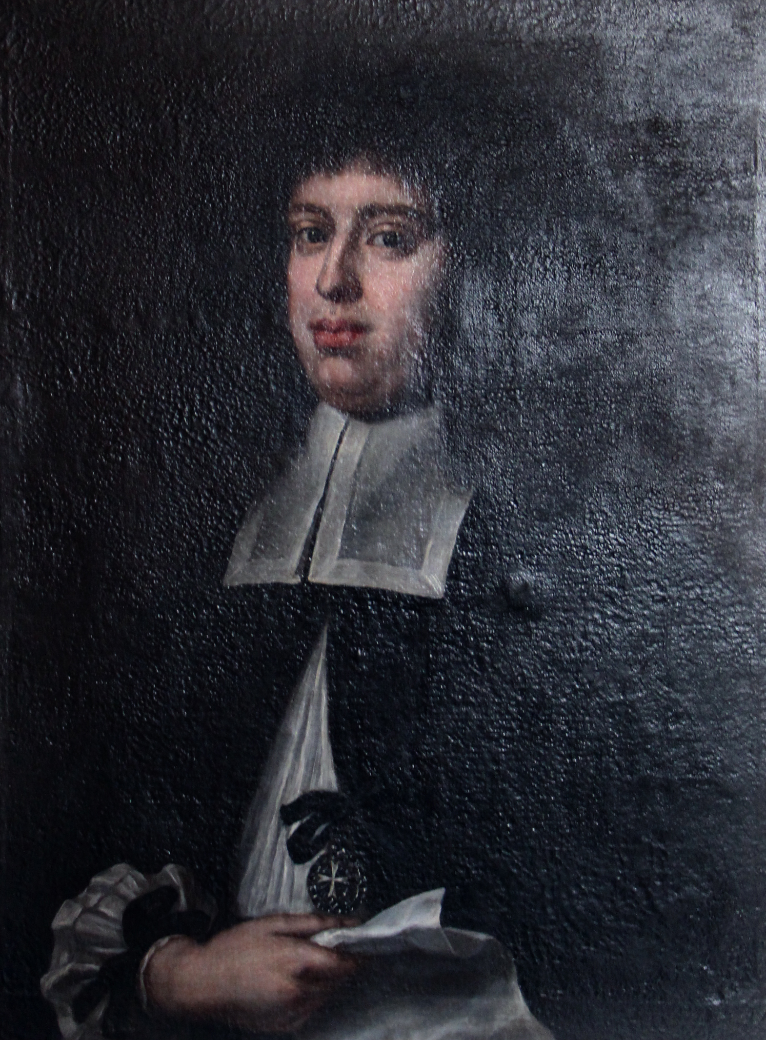 Cardinal Ferdinando Maria de' Medici